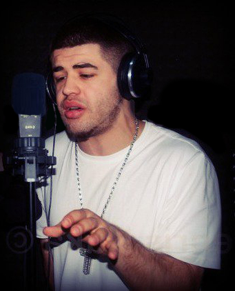 Noizy on OTR Rec.Studio